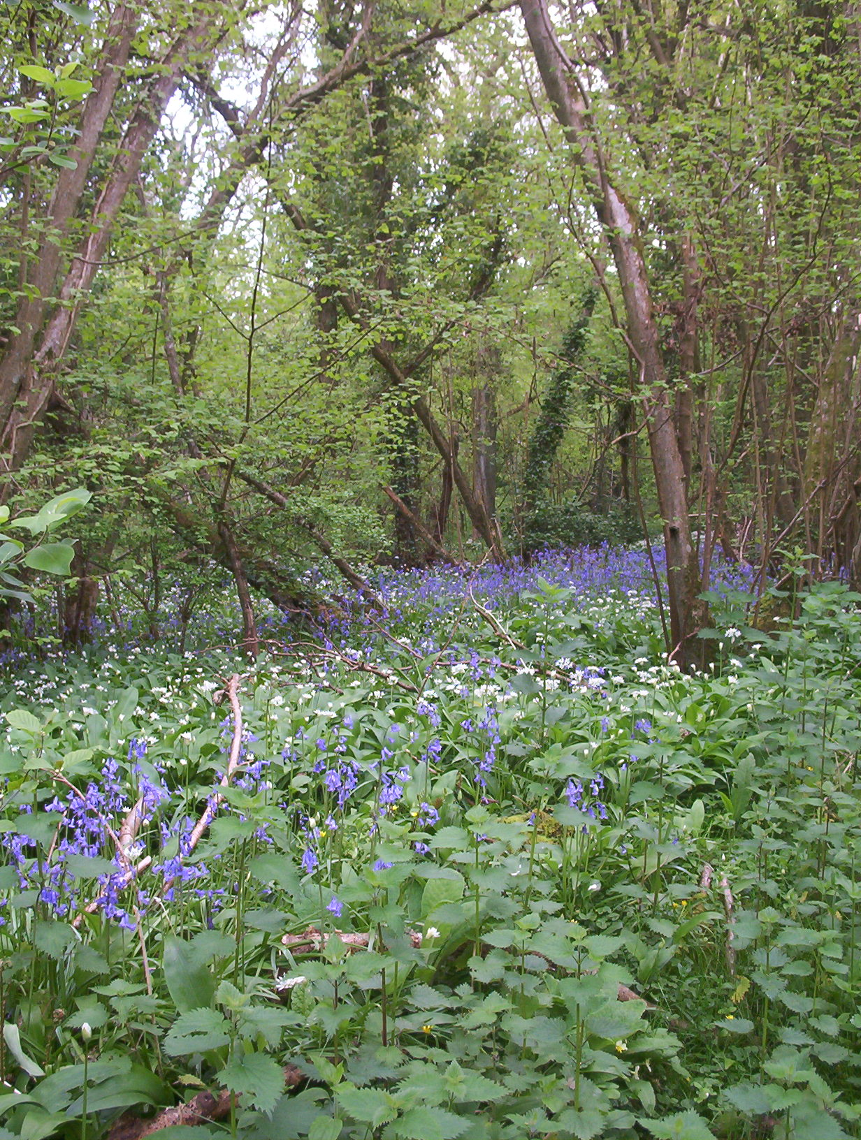 Coppice woodland at Centurion's Copse, Brading, Isle of Wight, May 2005. Shows bluebells (blue, Hyacinthoides non-scripta), hazel (trees, Corylus avellana) and ramsoms or wild garlic (white, Allium ursinum). Taken by Naturenet